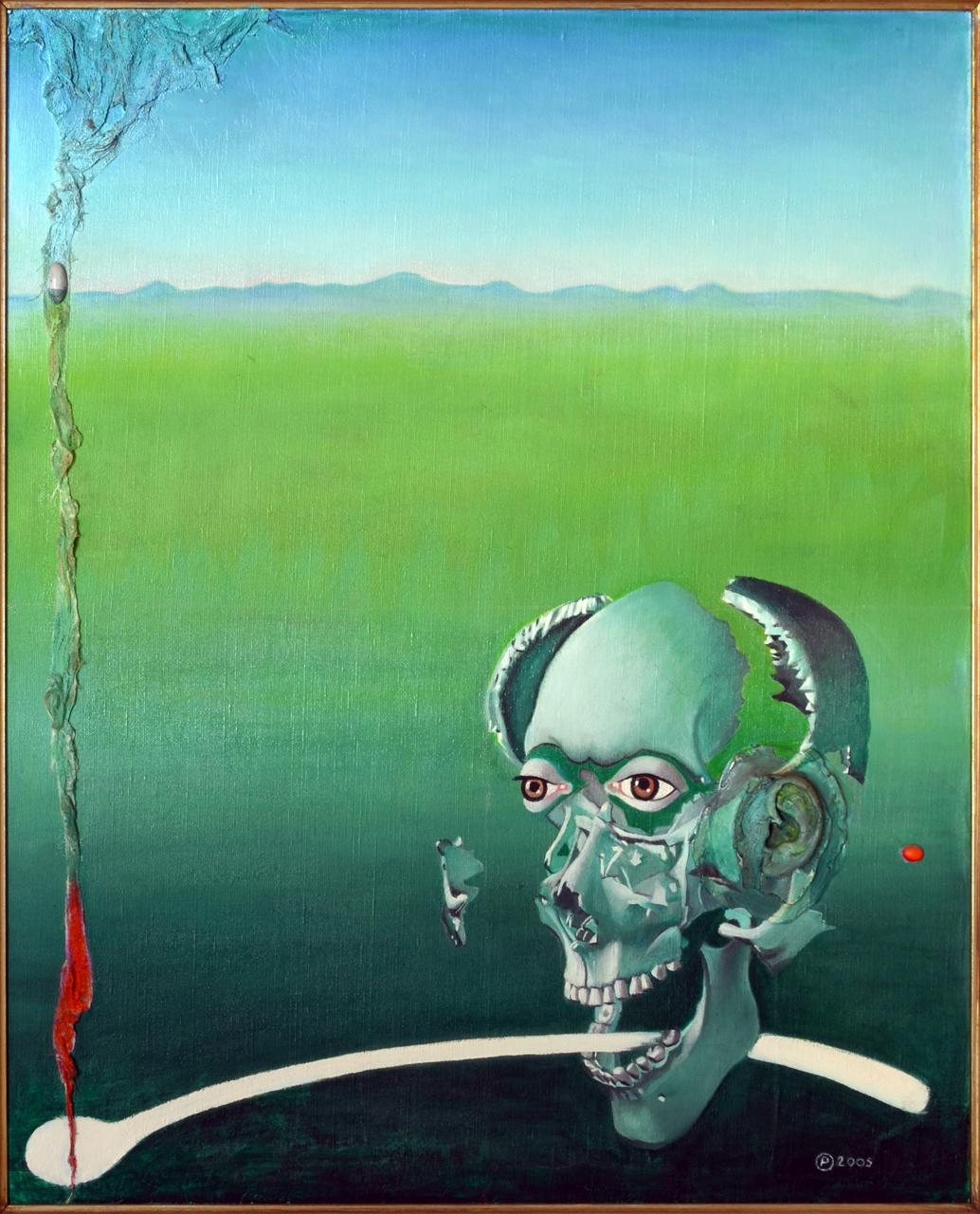 Petra Oriešková. Spoon, oil on canvas, 2005